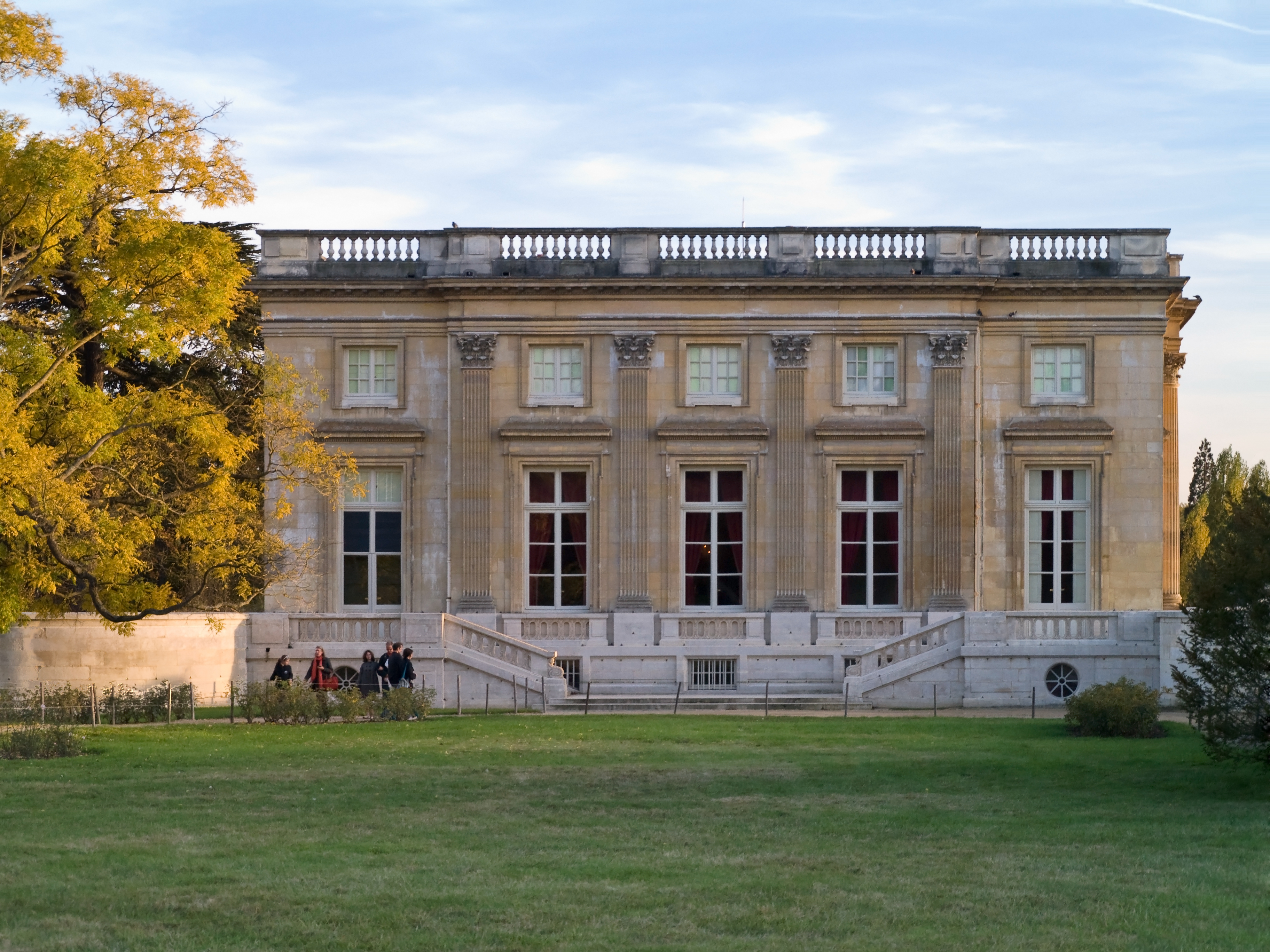 Petit Trianon: the northern facade, decorated with Corinthian pilasters - Palace of Versailles, France.